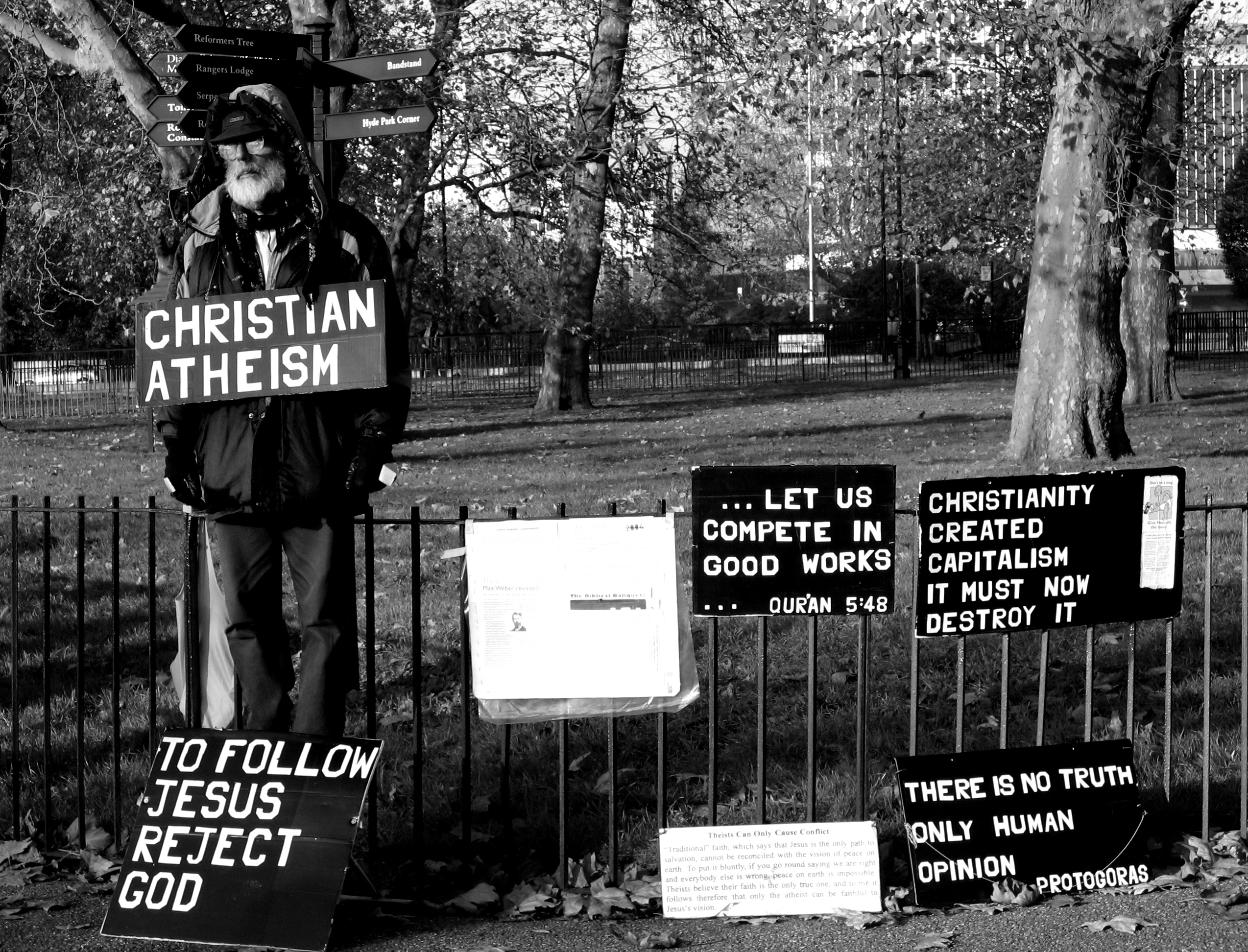 black and white, speakers' corner, hyde park, city of westminster